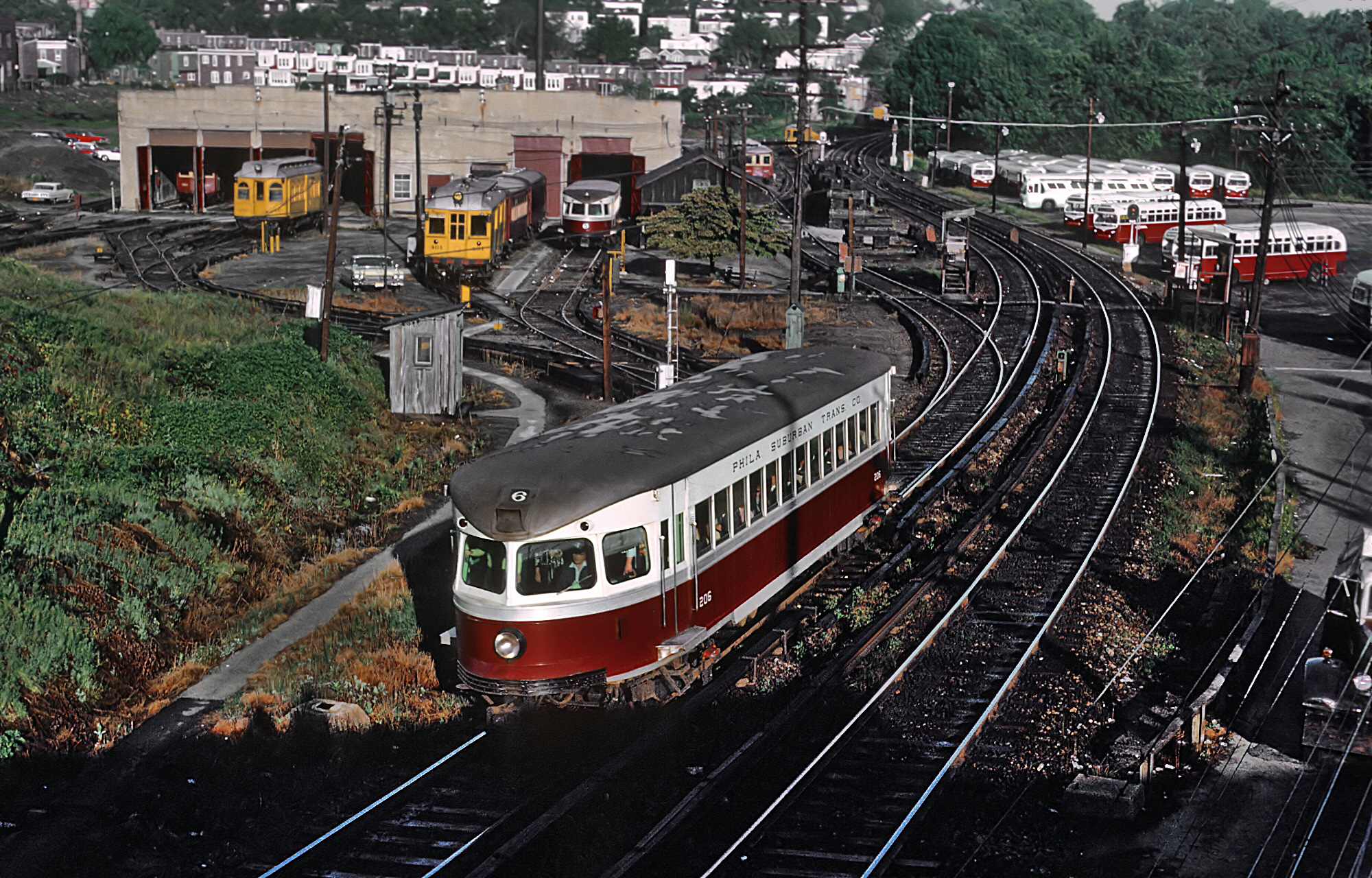 ... passing the P&W shops and taken from Victory Ave. overpass in Upper Darby, PA on September 2, 1965 by Roger Puta.